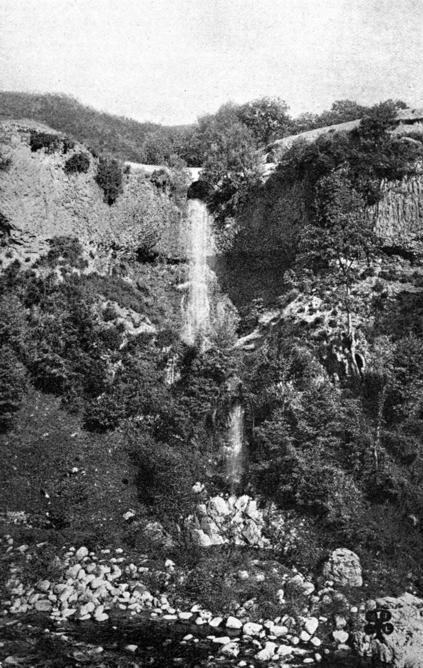 Image from scanned version of book "A book of the Cevenness" by Sabine Baring-Gould from published in 1907 and in the Public Domain. Image has been cropped and sepia tone removed.